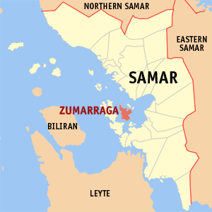 Map of Samar showing the location of Zumarraga